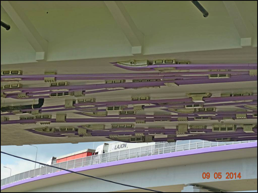 Freeway bridge on autostrada A1 in Mszana, Poland